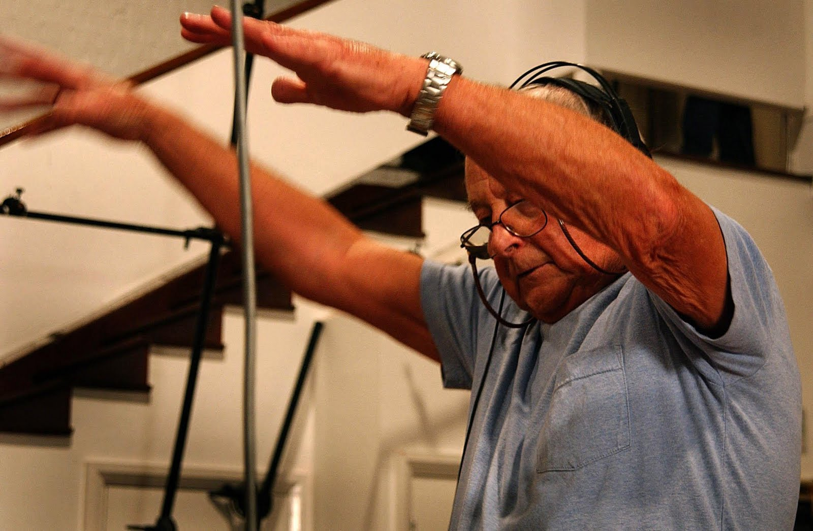 Pete Moore Composing